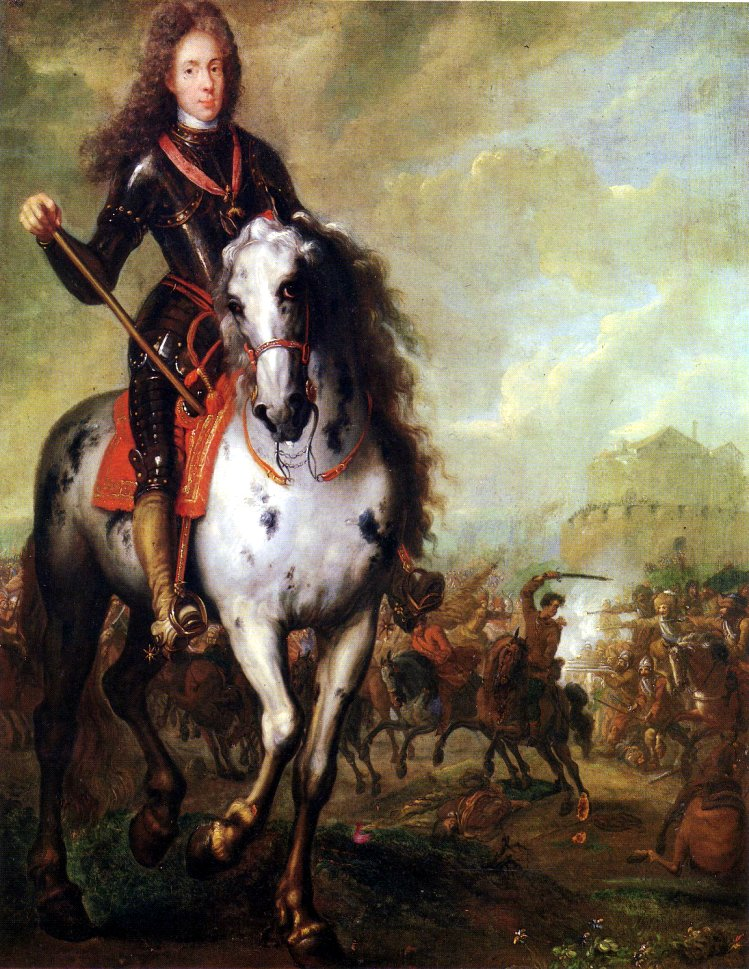 Equestrian portrait of Prince Eugene of Savoy (1663-1736)